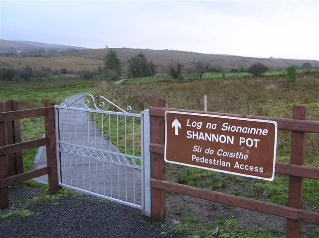 Log na Sionainne (Shannon Pot) Pictured at the pathway leading to the source of the longest river in Ireland (Irish: Lag na Sionna meaning hollow of the Shannon) - more at